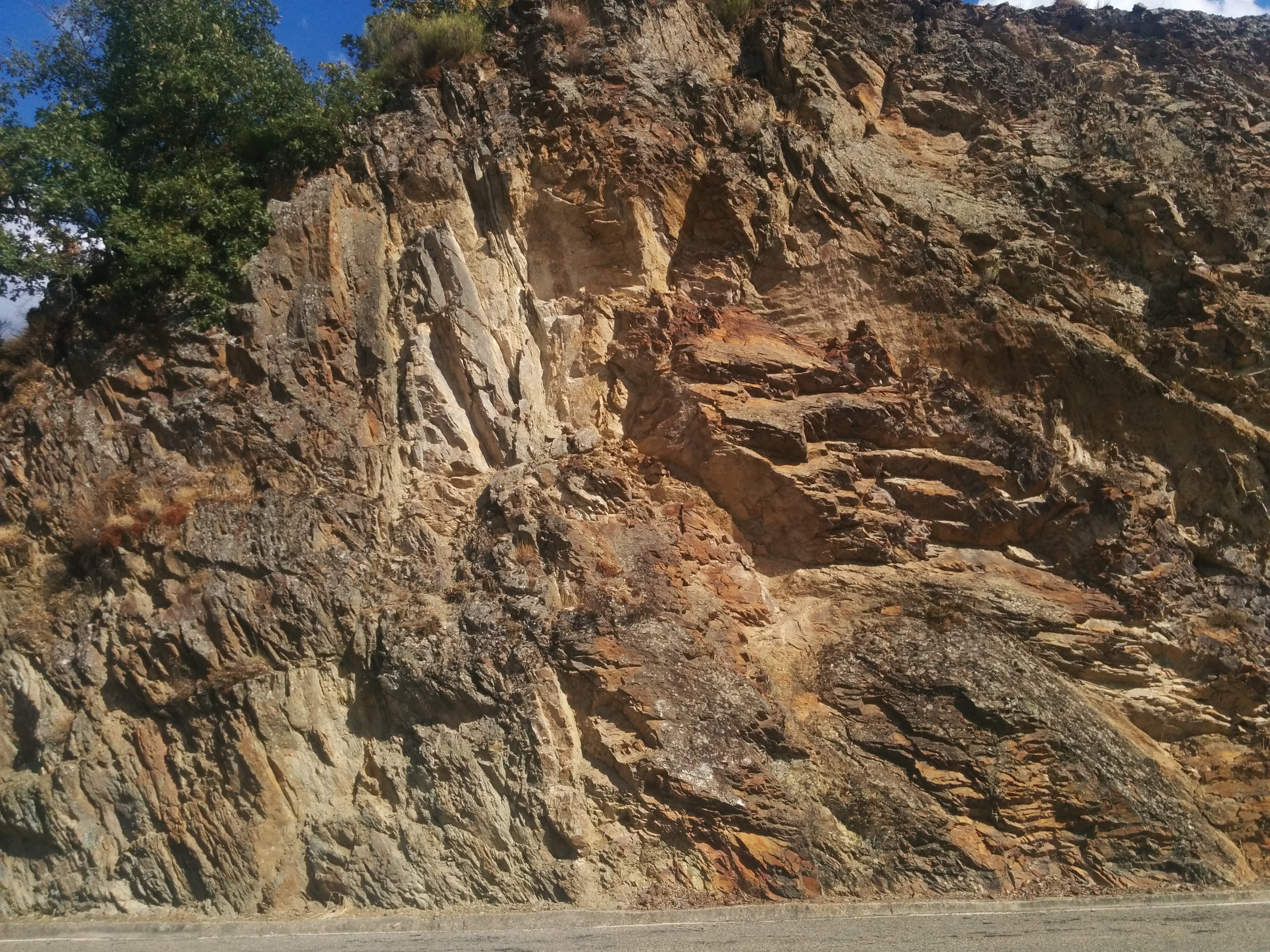 Angular discordance between the Herreria (Cambrian, to the left) and Narcea (Precambrian, to the right) formations in Barrios de Luna, León, Spain